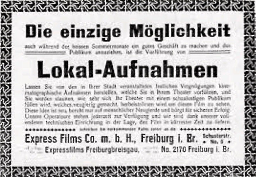 Newspaper ad in the 1910s by movie productions Express Films Co. m.b.H. of Freiburg im Breisgau, Baden, Germany. The company was founded by Bernhard Gotthart (1871–1950). The cameraman Sepp Allgeier (1895–1968) started his career in this company.